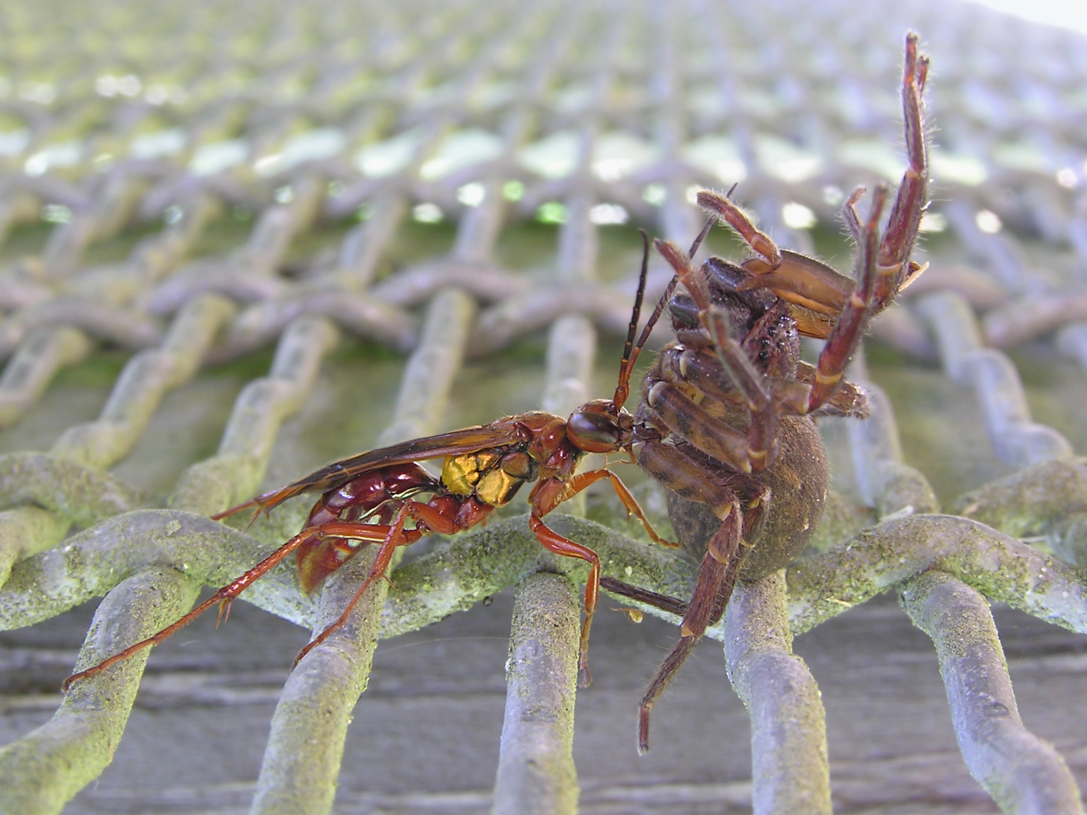 Female wasp dragging paralysed spider to its nest.